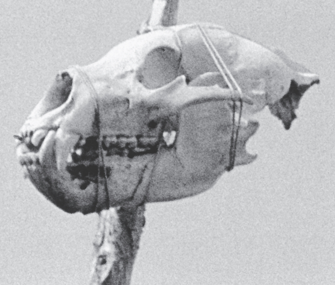 A bear skull on a pole seen by William Brooks Cabot in 1910 in the Ungava region of northern Quebec. Often cited as the first concrete evidence of the existence of the subspecies of grizzly bear, Ursus arctos ungavaesis.